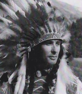 Joseph Balmer, historian on North American Indians